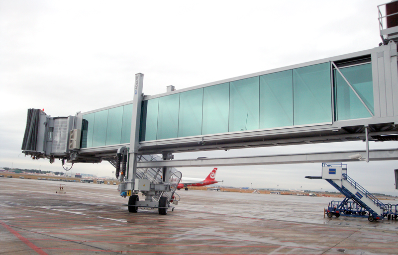 Modern glass walled Passenger Loading Bridge at Valencia Airport.